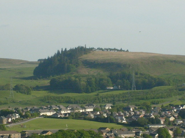 Neilston Pad, a topographical feature in Neilston, East Renfrewshire, Scotland.